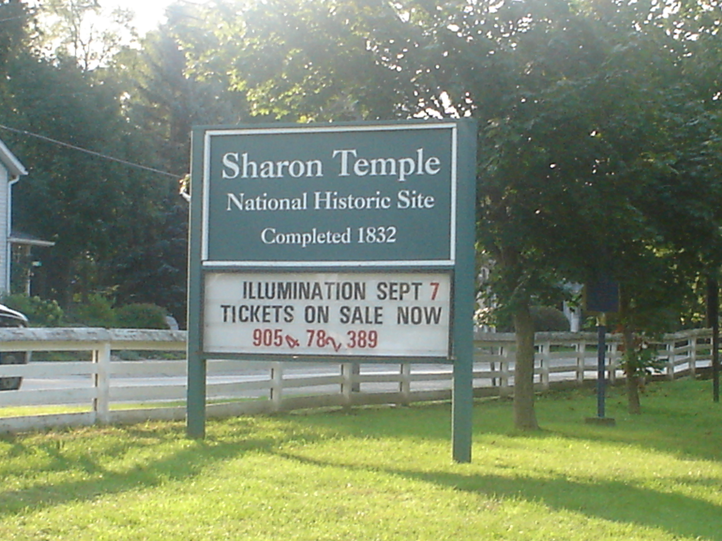 Sign facing Leslie Ave in Sharon, ON, announcing upcoming events at the temple.